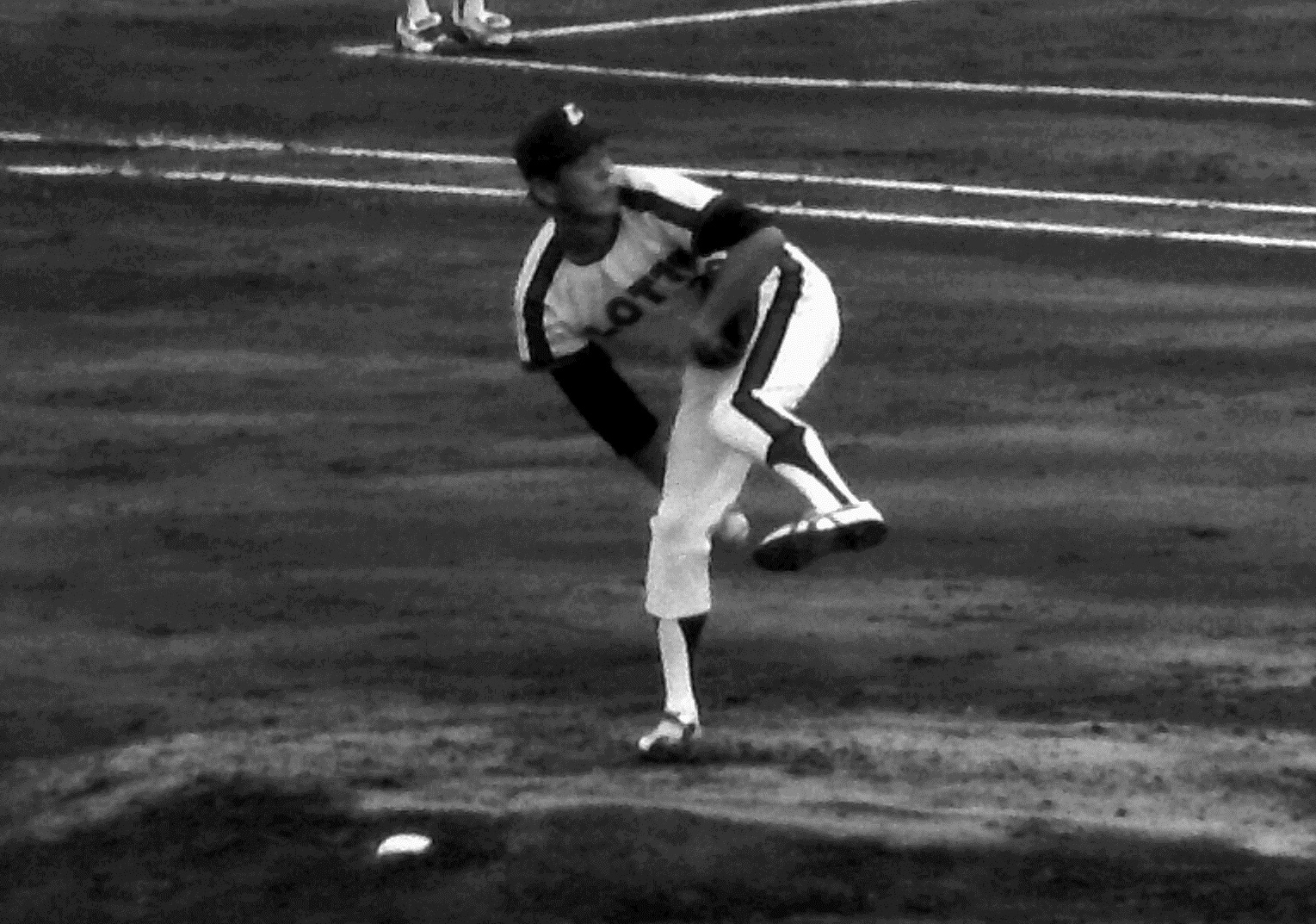 Choji Murata, a Japanese baseball player in his last game as a professional player in Kawasaki Stadium